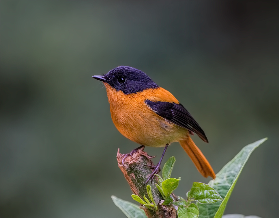 The Black and Orange Flycatcher by Antony Grossy Ficedula nigrorufa from India The Nilgiris Ht 2200mtrs Tamil Nadu State